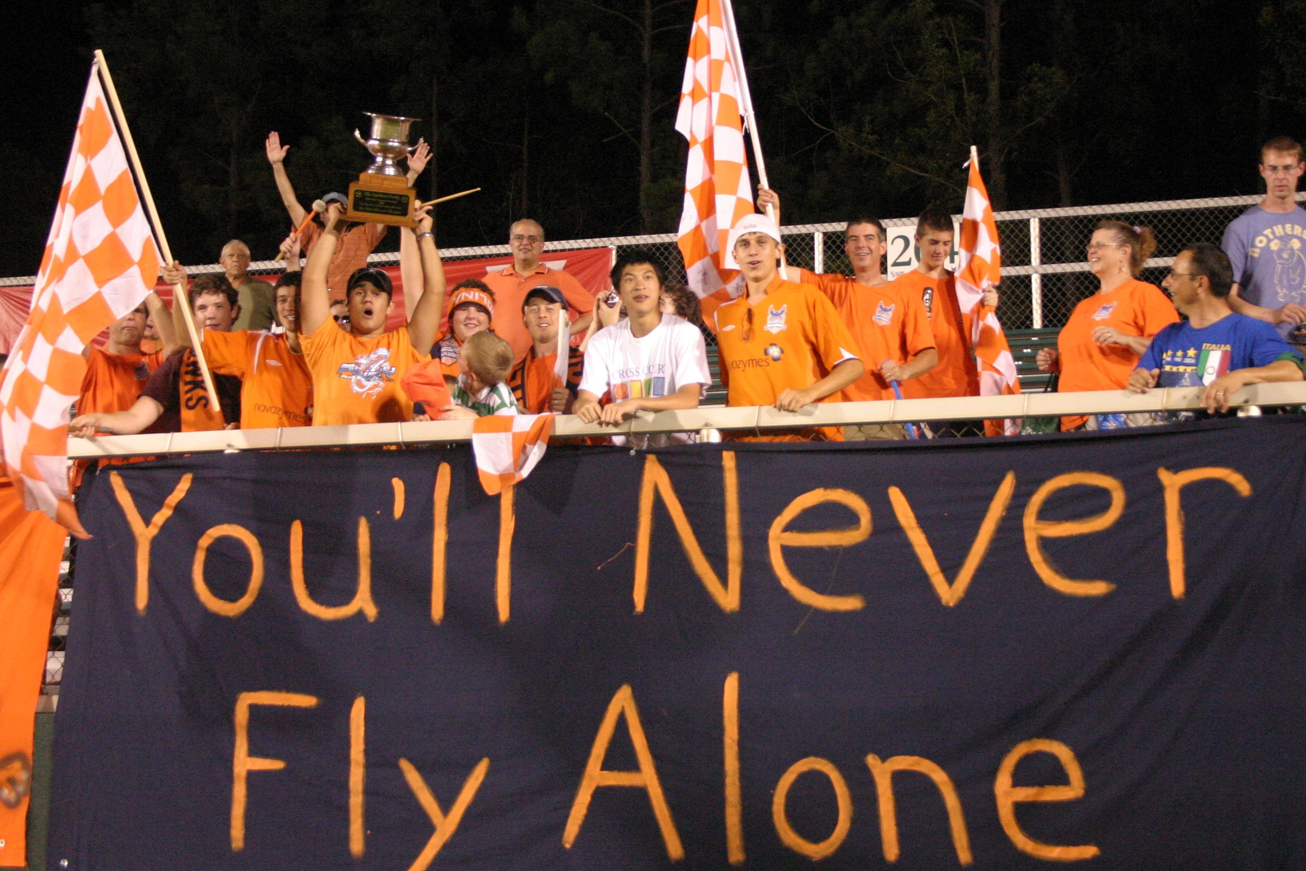 Carolina RailHawks fans celebrate their teams 2007 Southern Derby Championship